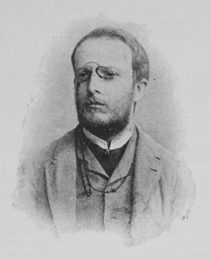 Portrait of Emanuel Kovář (1861-1898), Czech philologist and ethnographer.